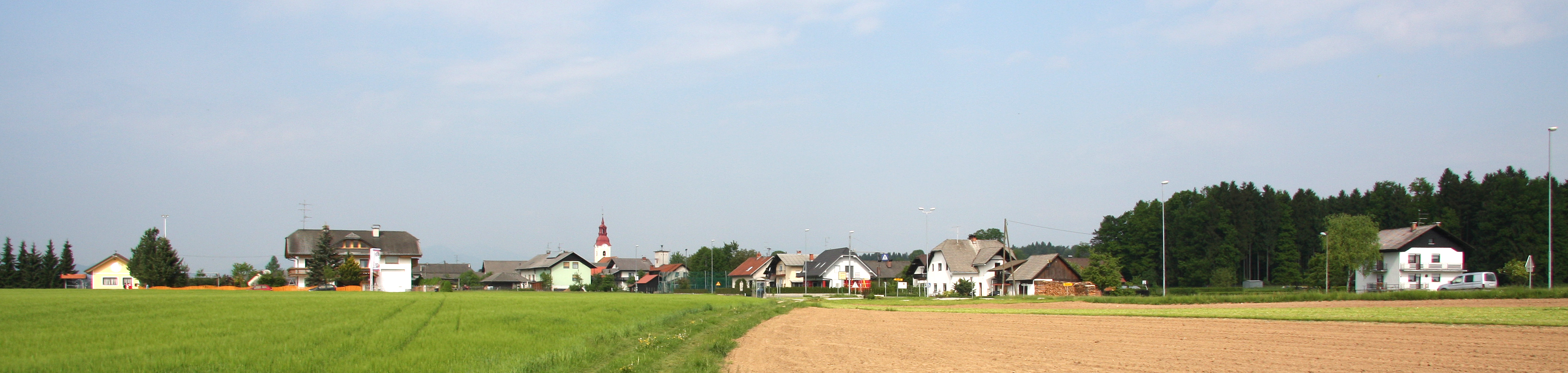 Zapoge, a village in Vodice municipality, Slovenia